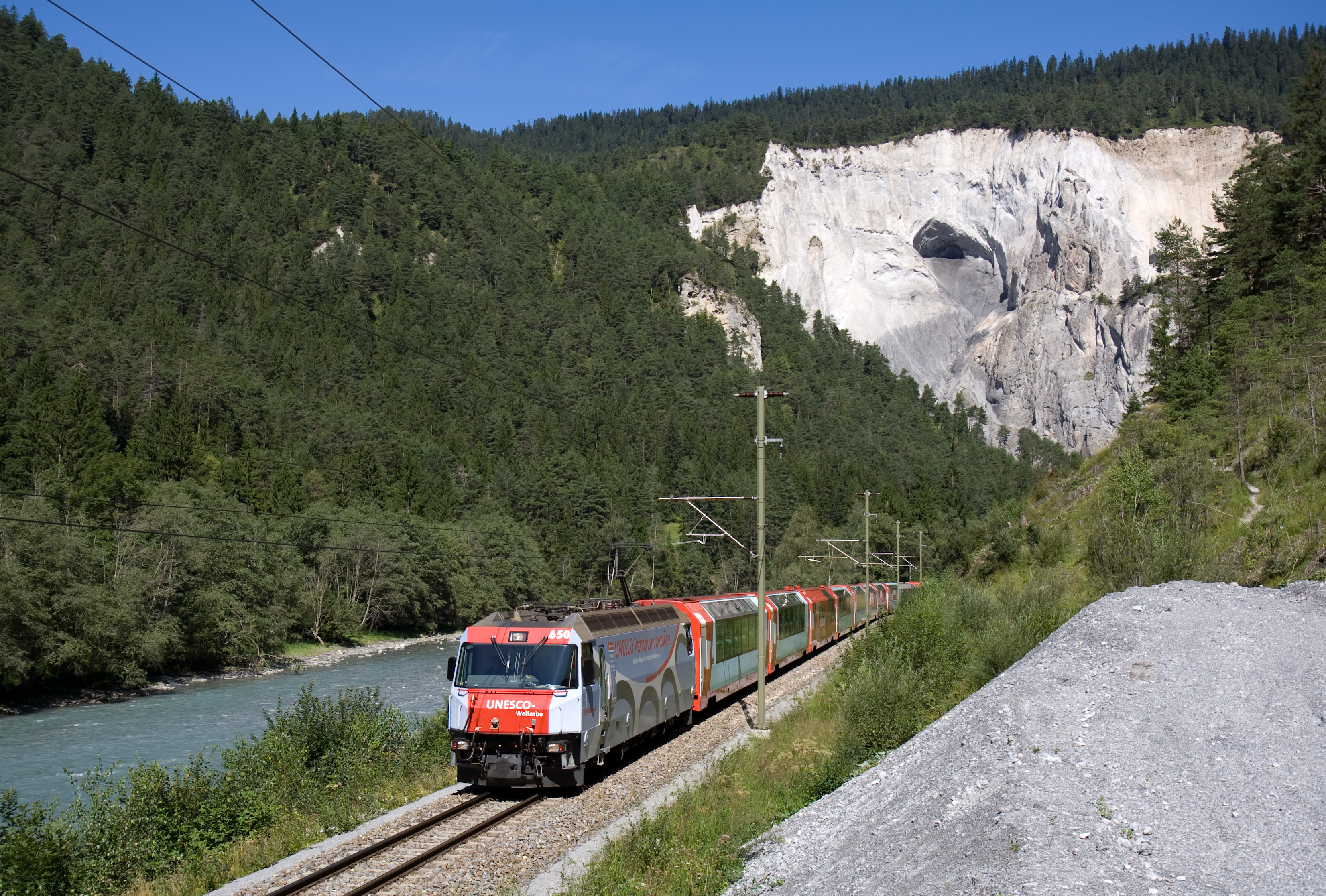 Two Glacier Expresses coupled together and pulled by a single Ge 4/4 III in the Rhine canyon between Versam-Safien and Valendas-Sagogn.